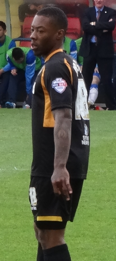 Ryan Jackson playing for Newport County against York City at Bootham Crescent, York on 26 April 2014